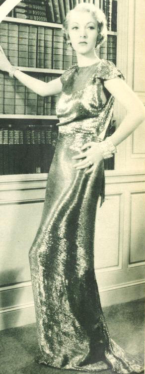 Karen Morley in a publicity shot for the 1934 film, The Crime Doctor Other information for an explanation of the copyright for information regarding public domain